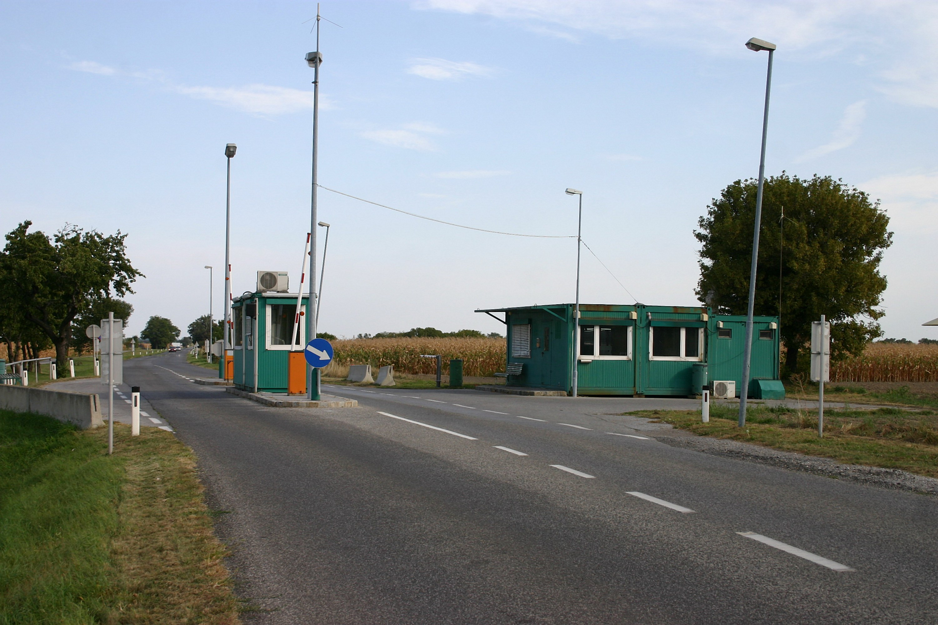 Kittsee - Border Austria-Slowakia